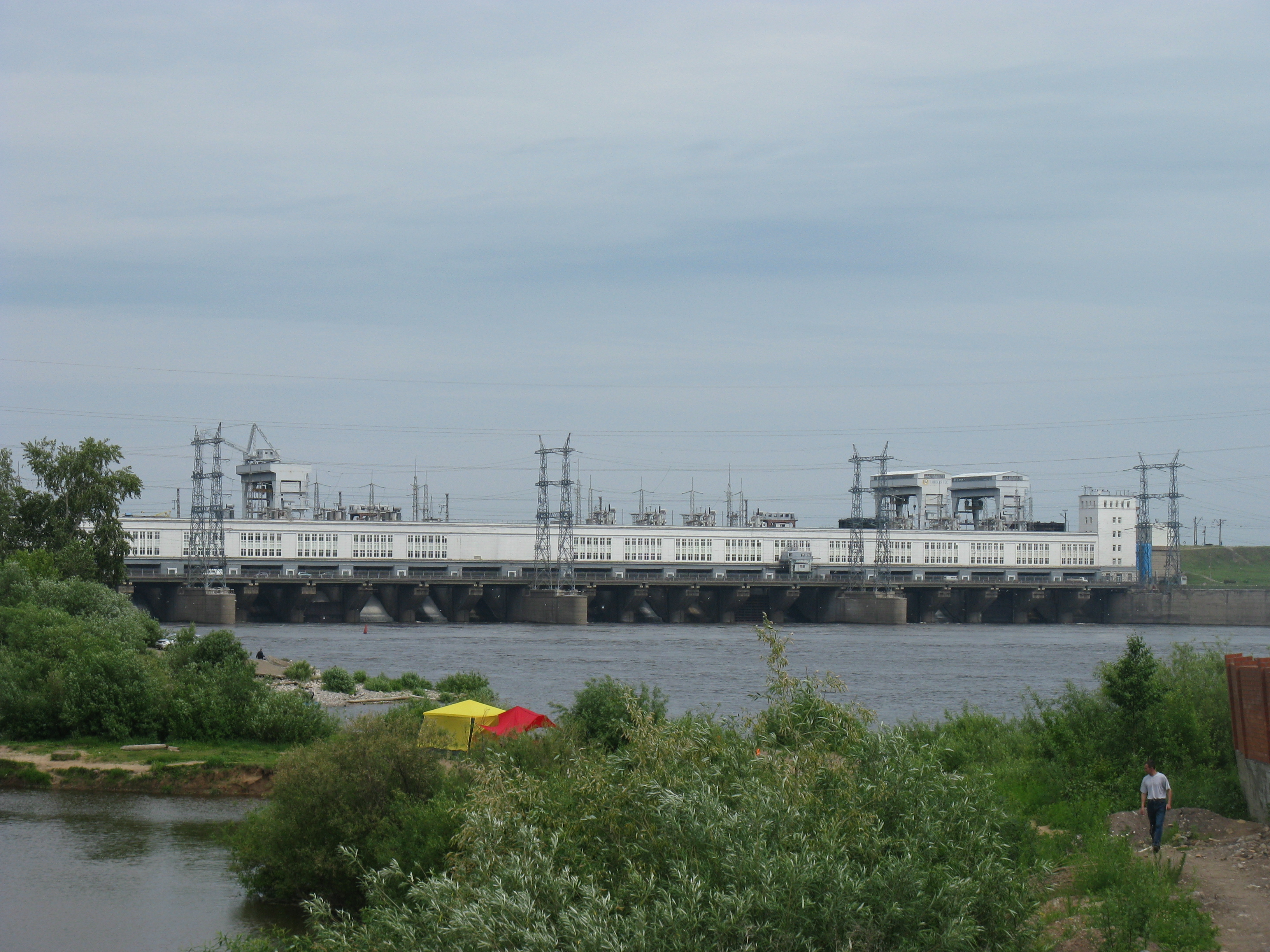 Kamskaya Hydroelectric power plant (Hydro power station) in Perm